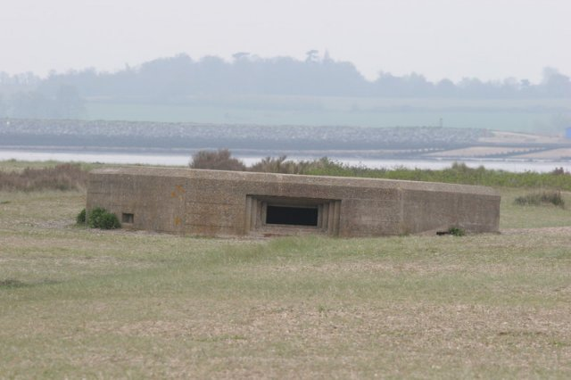 Pill Box on Mersea Island. It appears to have sunk or the sand has come back up to claim it.